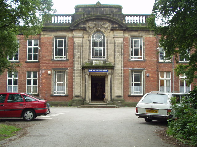 Lawnswood School, East Building, Leeds. Of course, it looks very similar to the West Building. This photo was taken on the open day, 6 July 2003. This was held at the end of the last year in the old school buildings. The school moved into a new building on the same site in September 2003 and the old buildings were demolished.